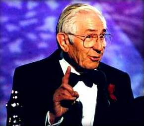 Petro Vlahos, a Greek-American special-effects pioneer, accepting his third Oscar, 1995